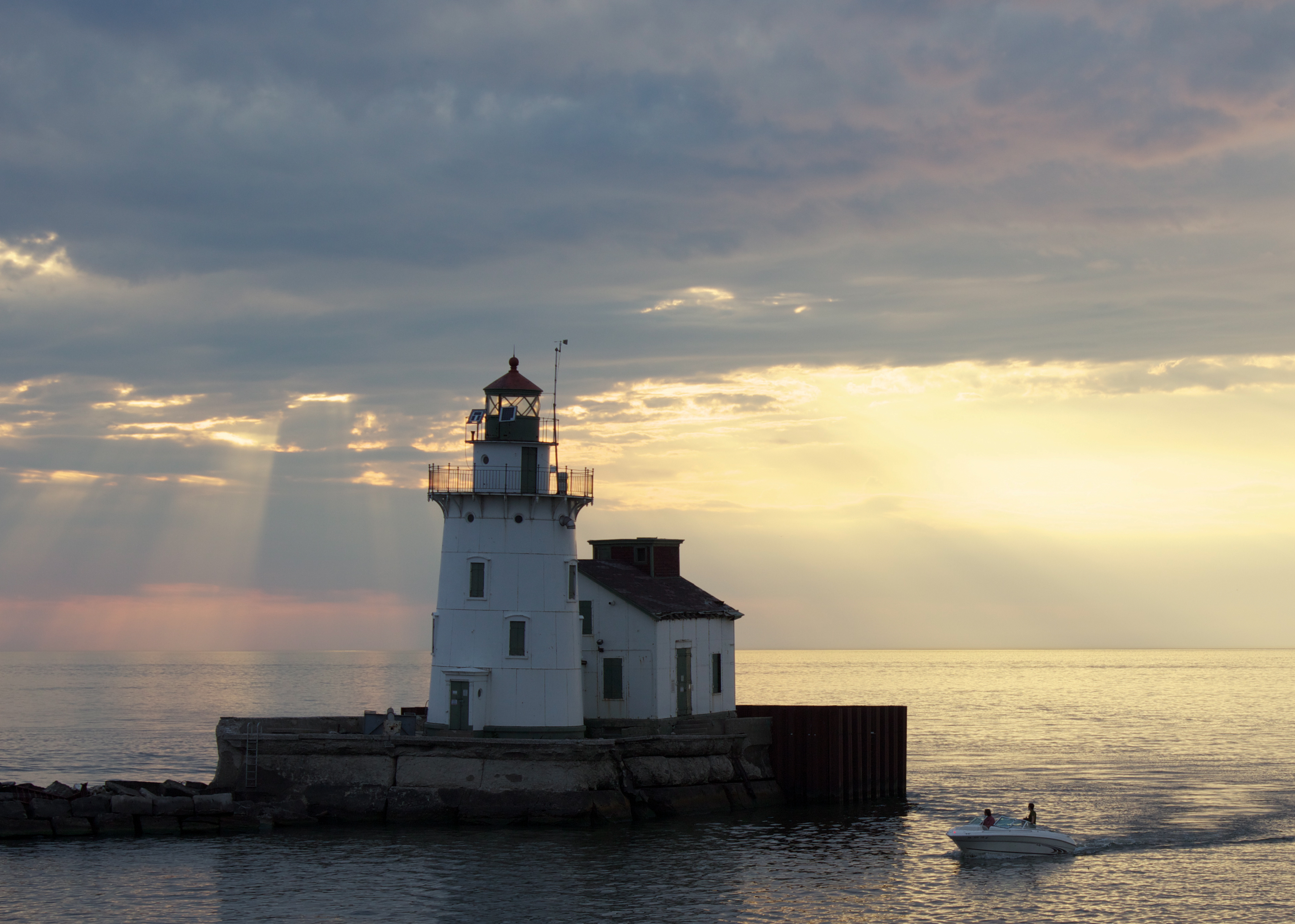 Cleveland West Pierhead Light